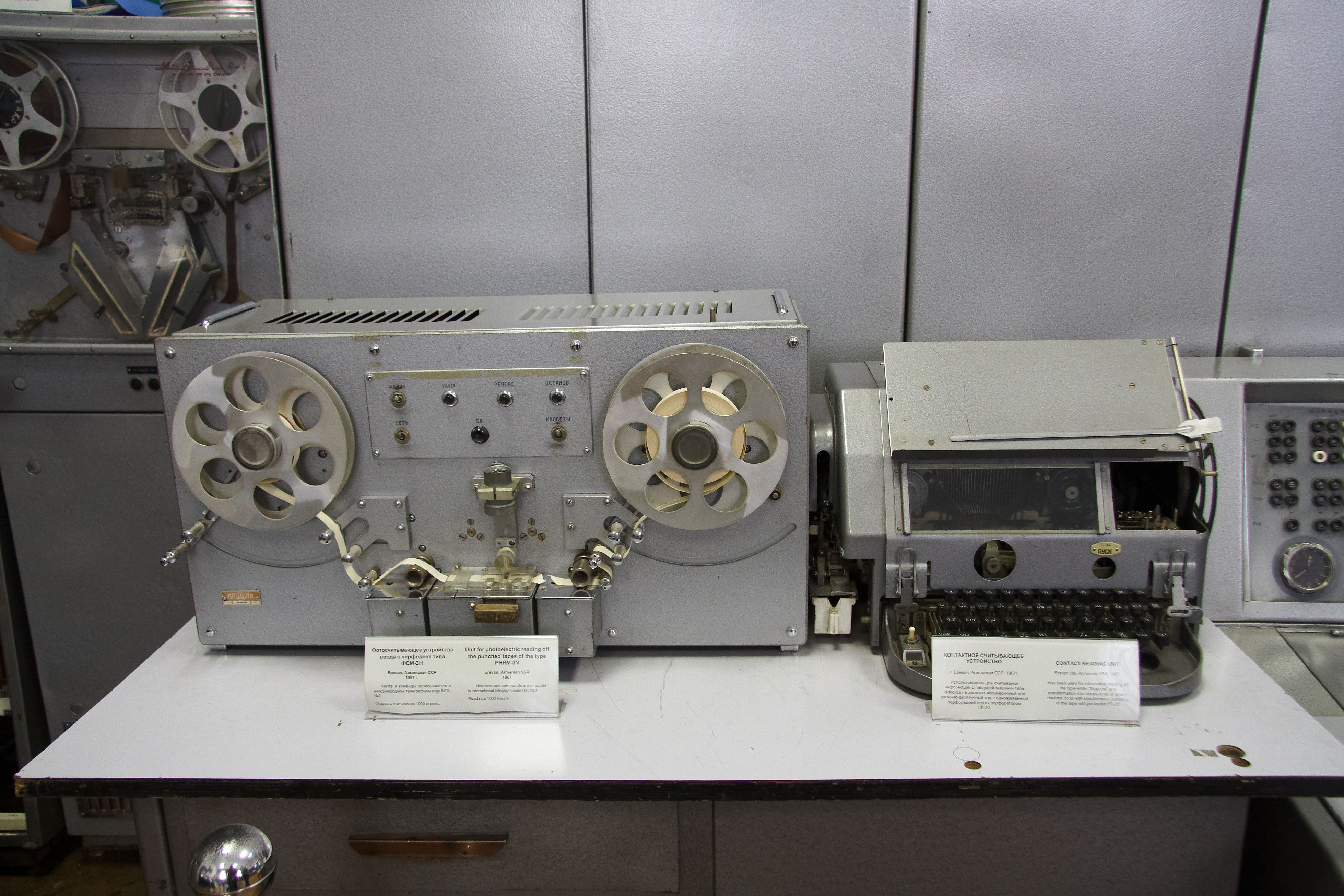 Razdan-3 Input Units